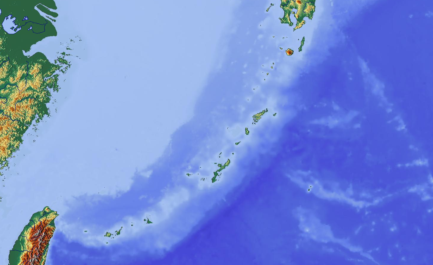 Map showing Ryukyu Islands for pin Geographic limits of the map: N: 31.959° N S: 23.312° N W: 119.817° E E: 135.824° E